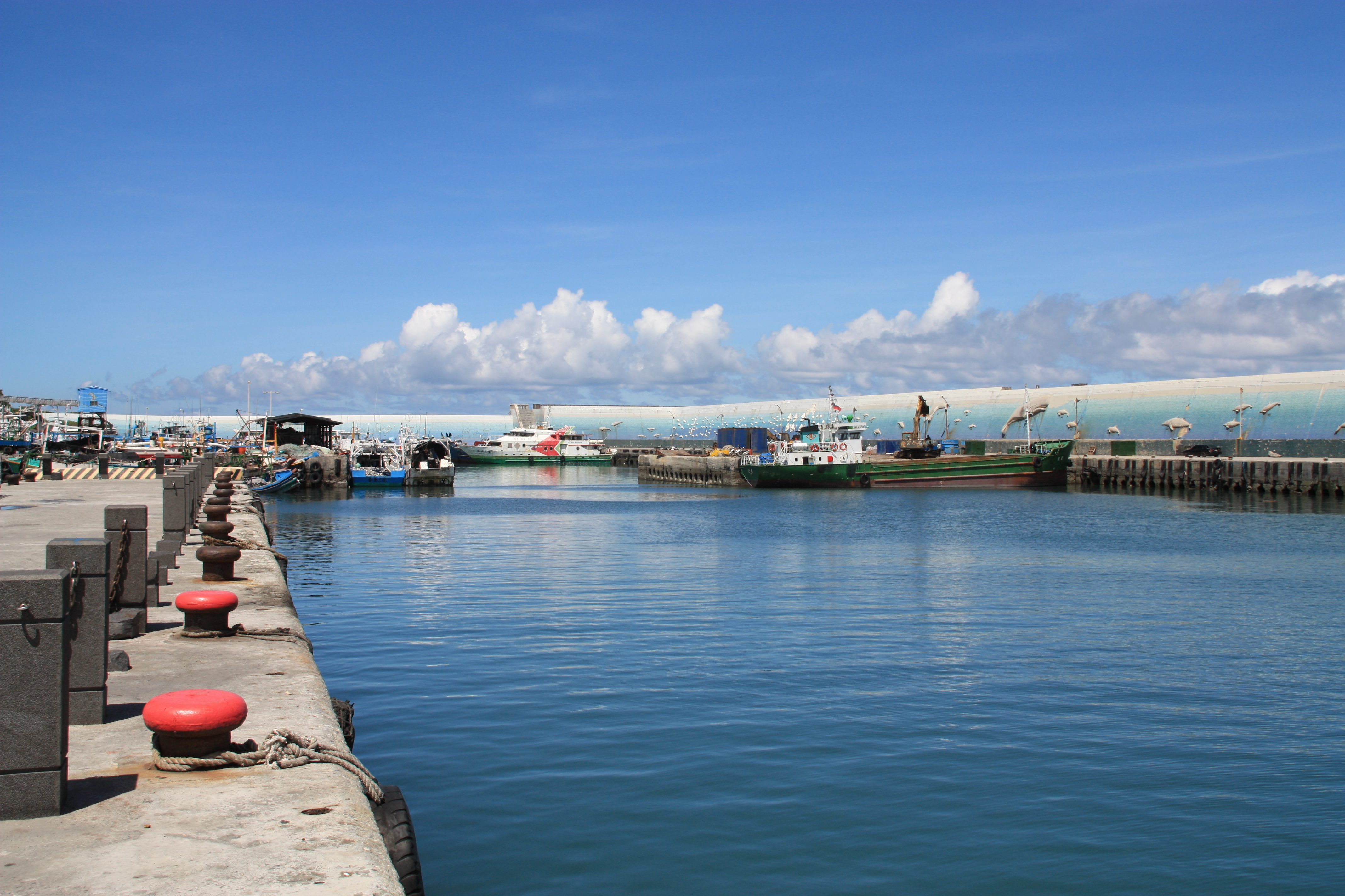 Taitung County Taitung City FùGāng fishing port Starting point for boat trips to Lǜ Dǎo (Green Island)